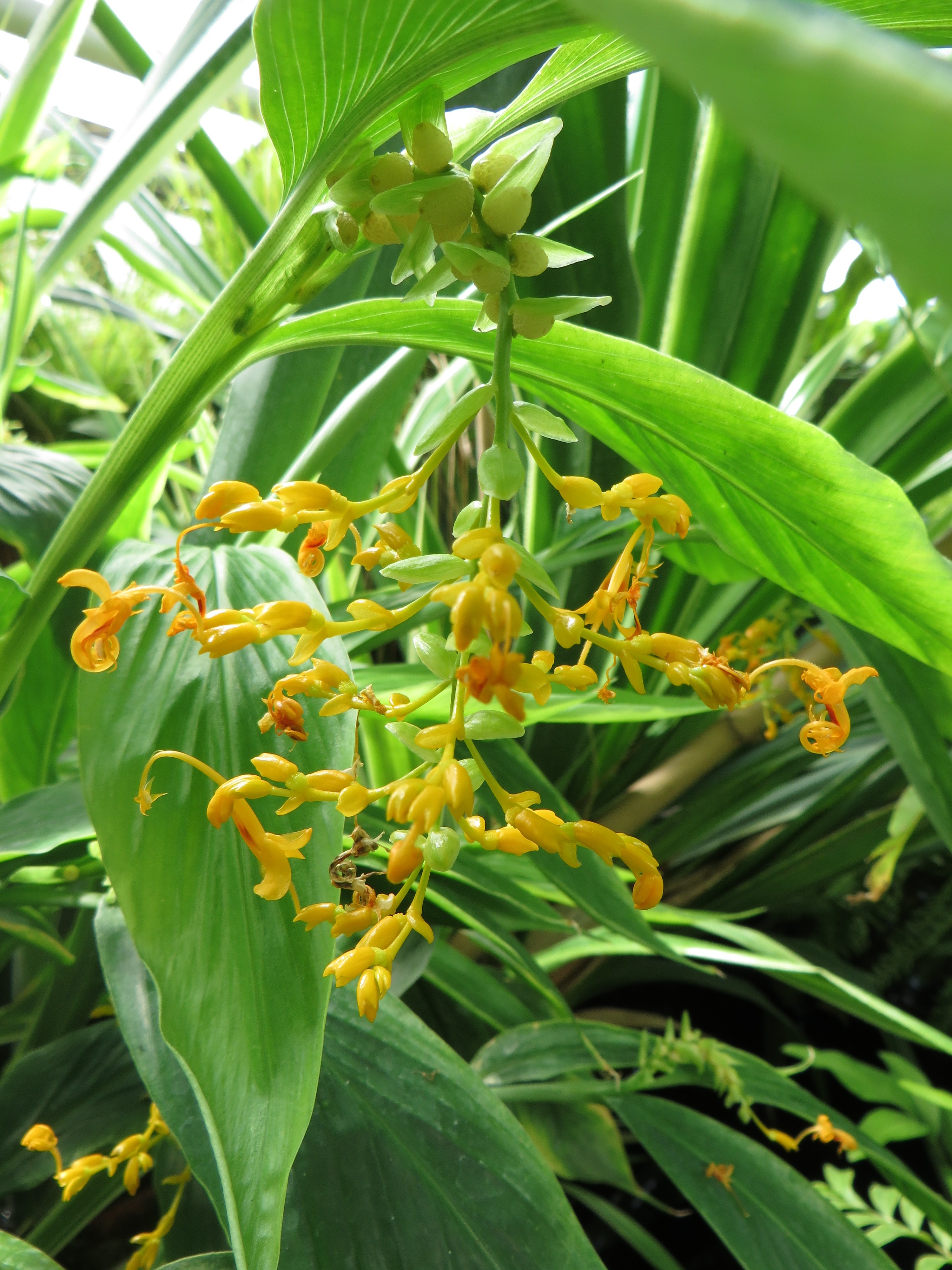 Globba marantina 'Mini'. The Botanical Garden of the University of Latvia